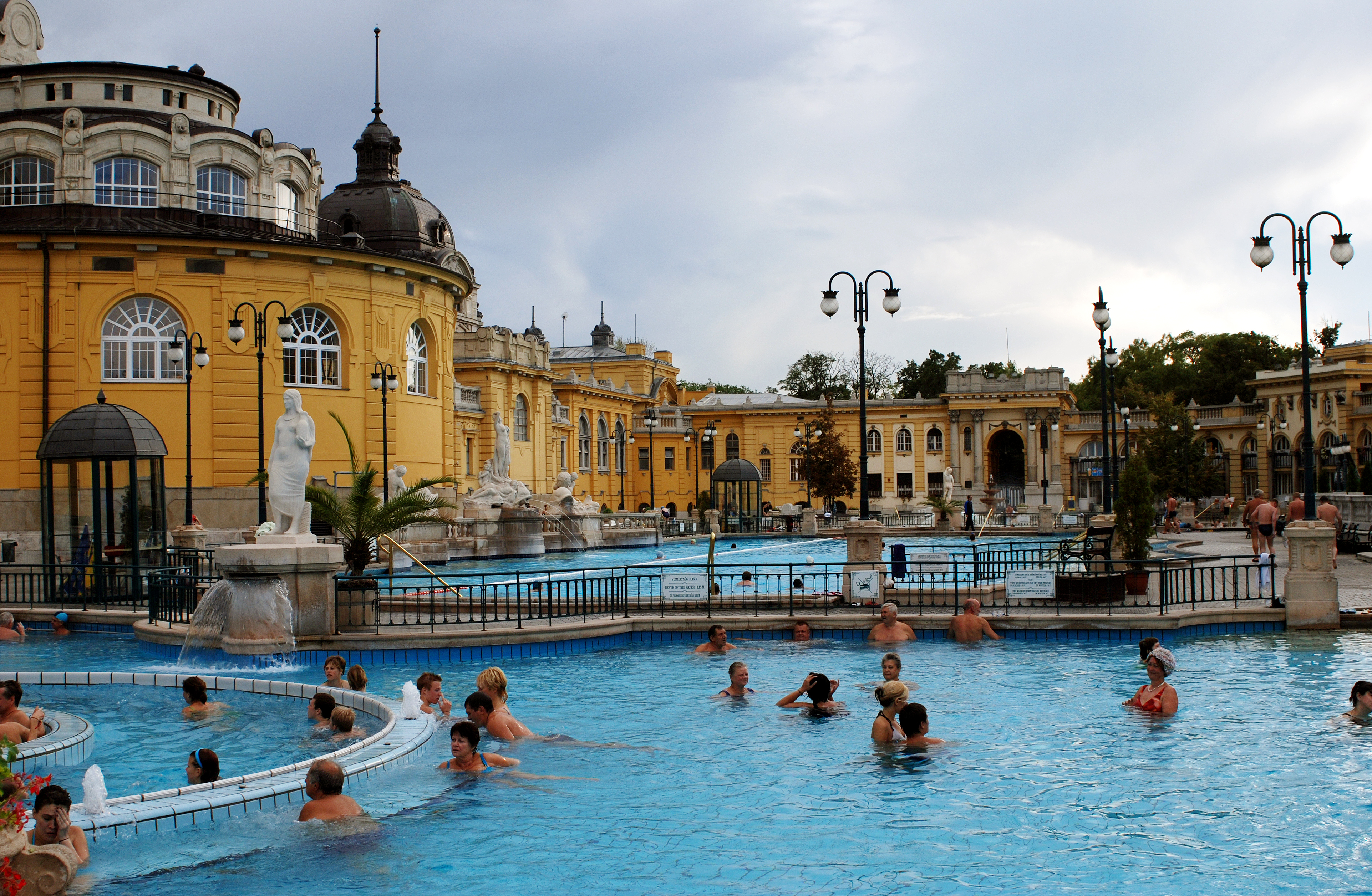 Budapest thermal spa Széchenyi Gyógyfürdő. Outside pool with jacuzzi and contraflow.